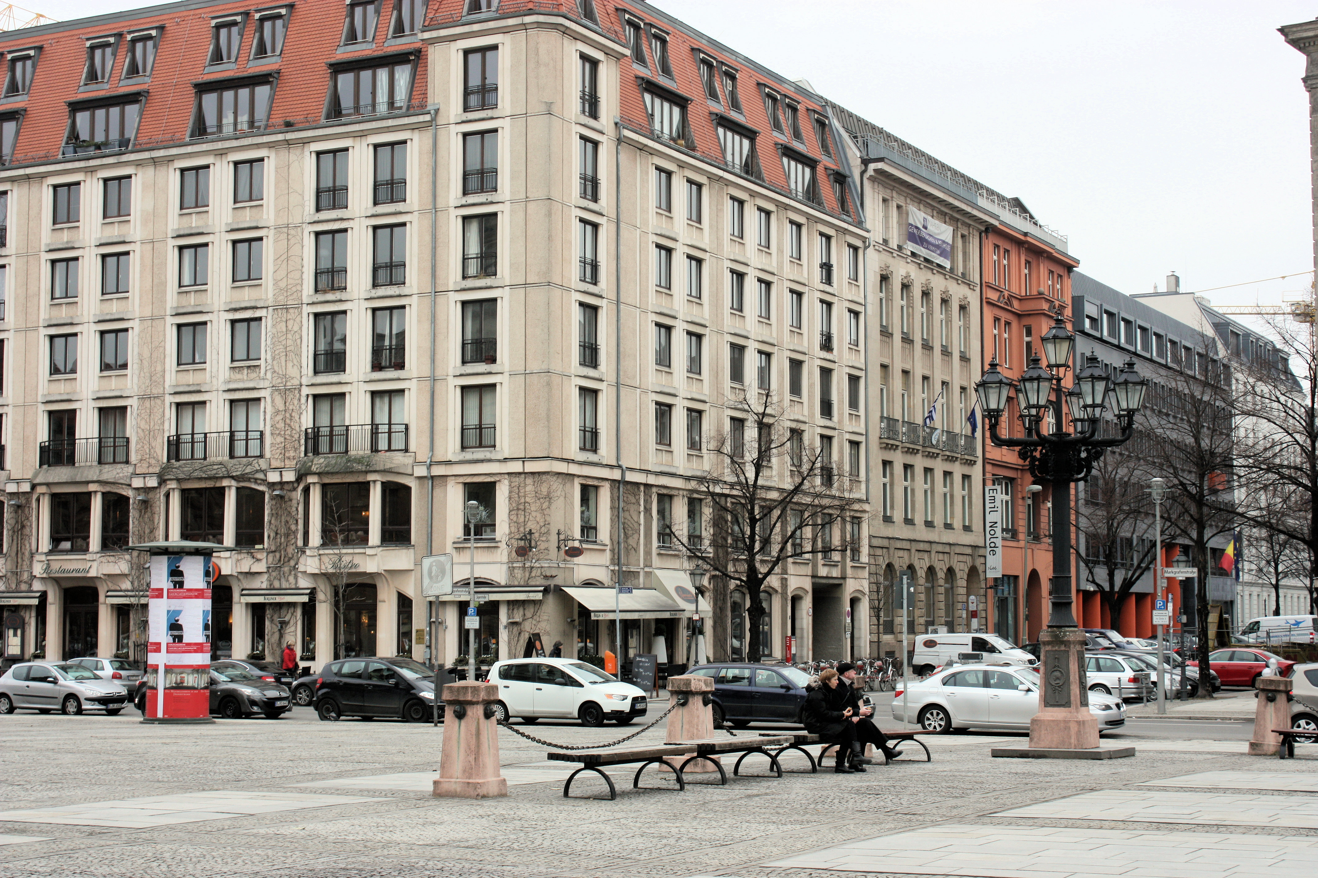 Berlin-Gendarmenmarkt, view to the Jägerstraße